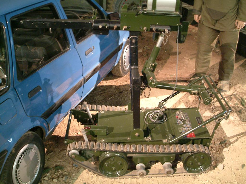 A remotely controlled bomb disposal "Wheelbarrow" used by the British Army to disable explosive devices since the early 1970s I took this photo at the Imperial War Museum at Duxford, UK